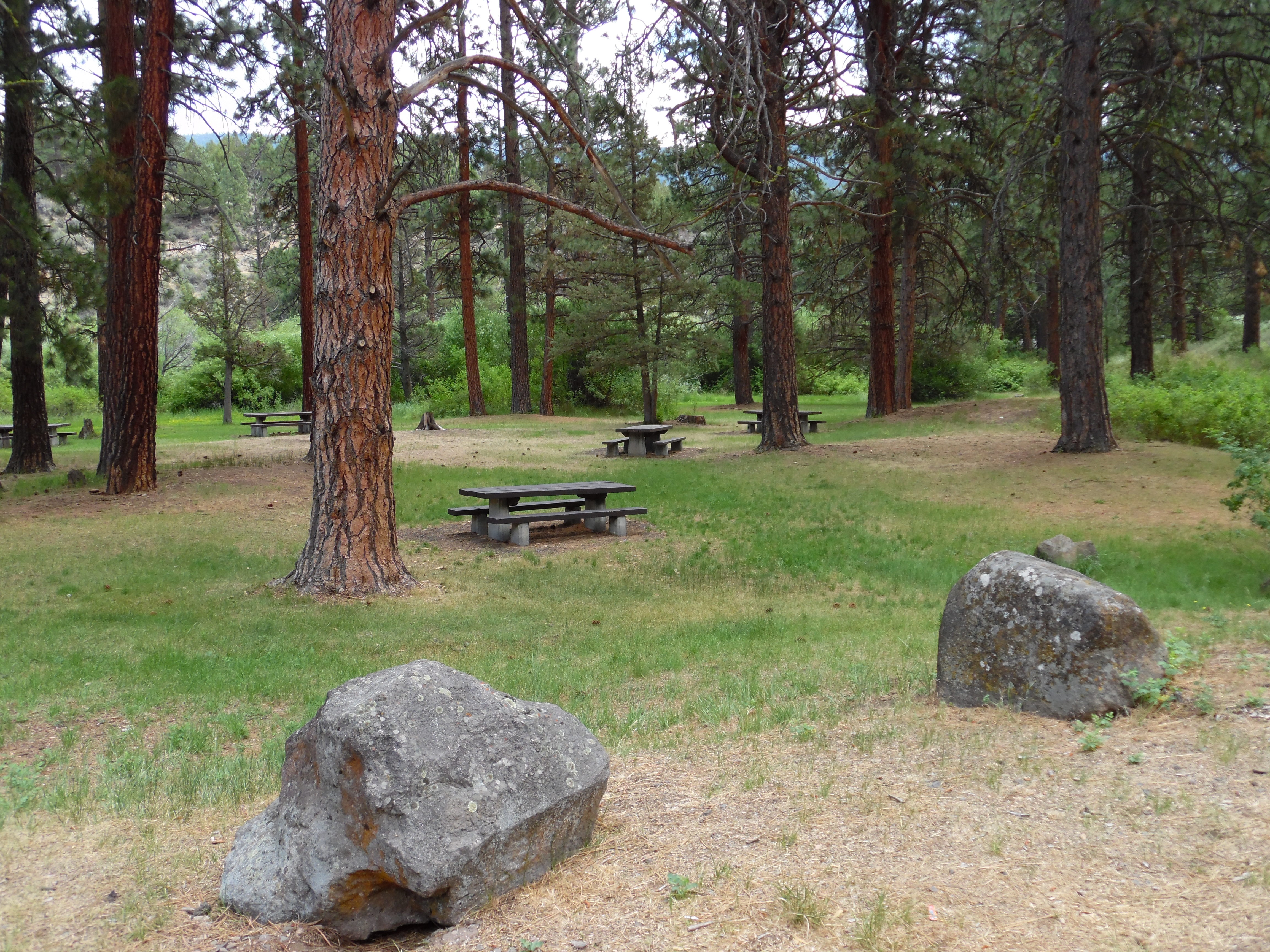 Picnic area at Chandler State Park near Lakeview, Oregon